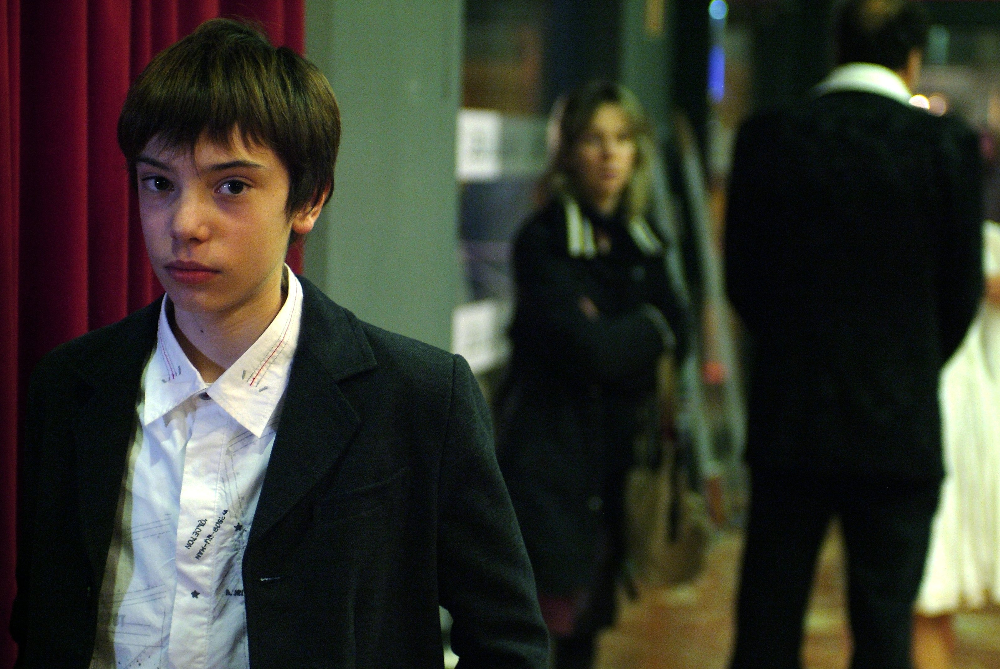 Photo of Francesc Colomer in the soiree of Gaudí Awards 2011